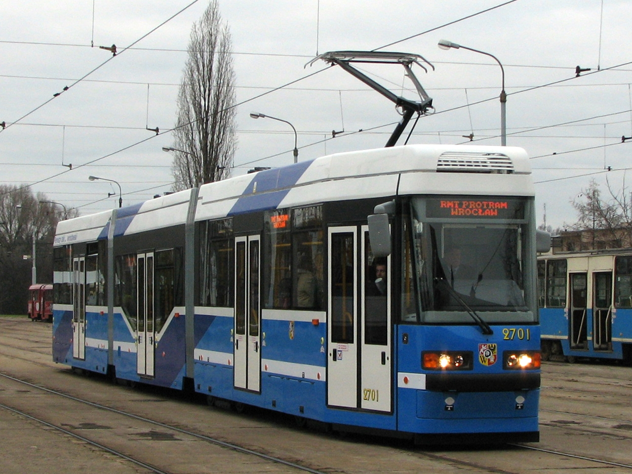 Protram 205 WrAs #2701 tram in depot near Powstańców Śląskich Street, Wrocław, Poland.